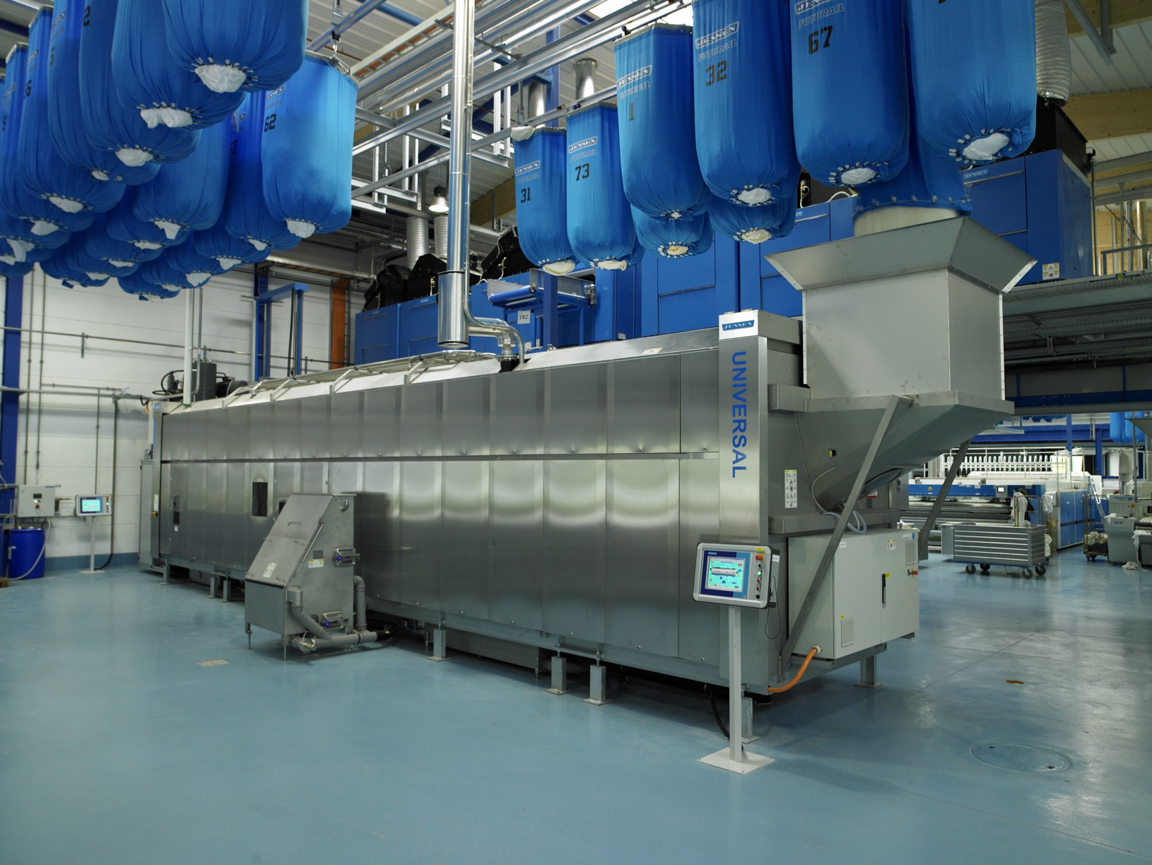 The washroom section at an industrial laundry